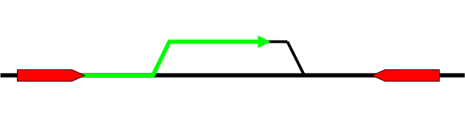 Example of passing loop action under the European safety rules, part 1: entry route set for train #1